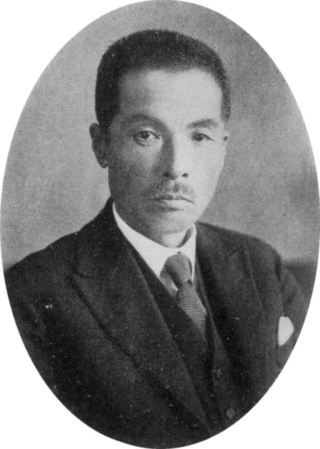 Kenkichi Mori.